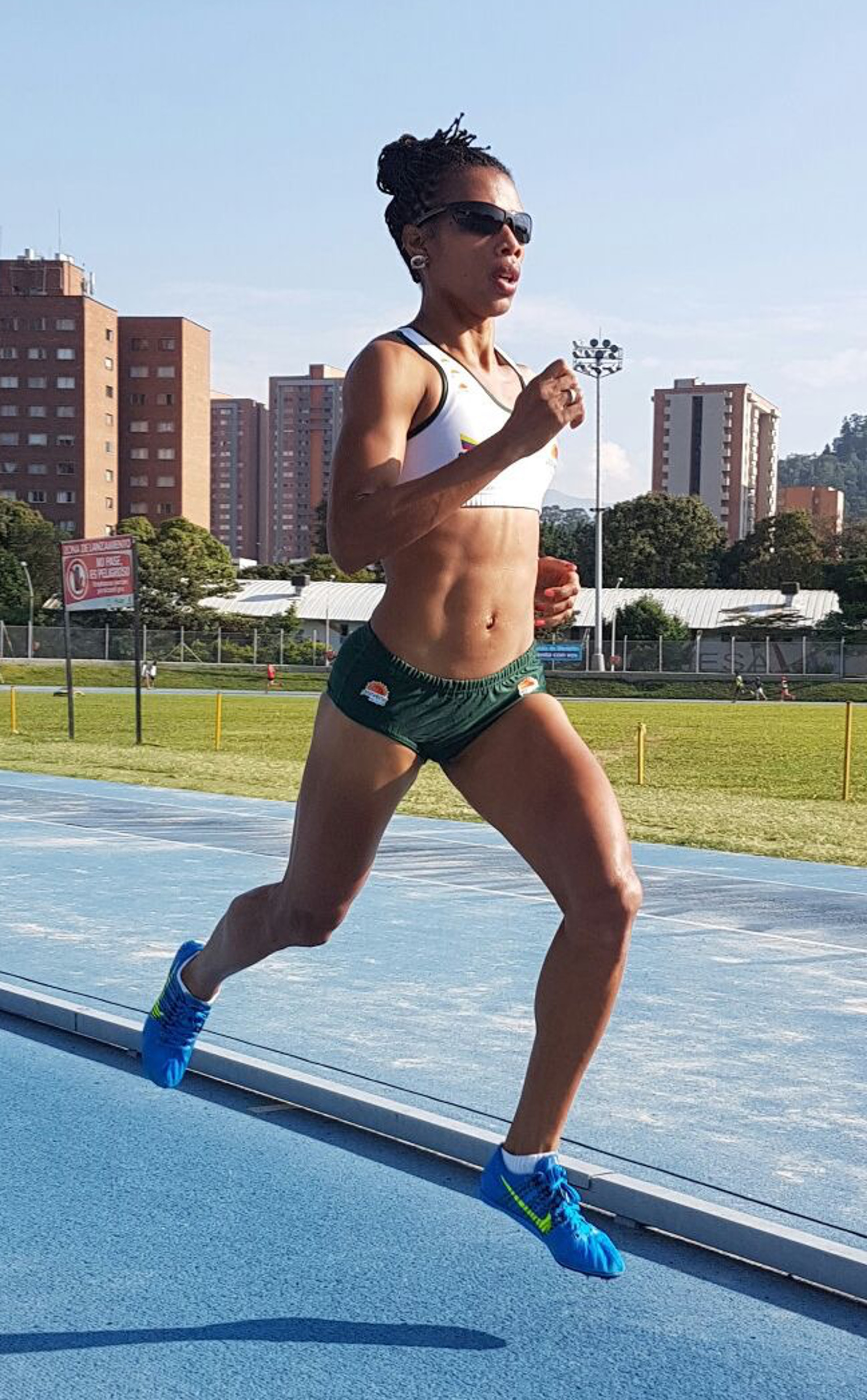 Muriel Coneo training in Medellin, COL